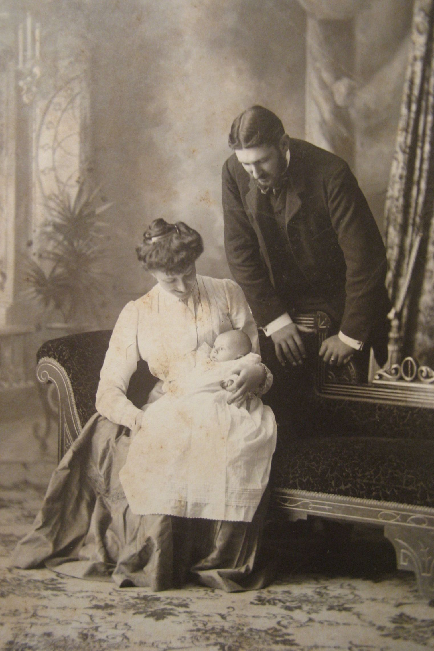 Philippe de Vilmorin, his wife Mélanie (born Mélanie de Dortan), and Henry (born in 1903)